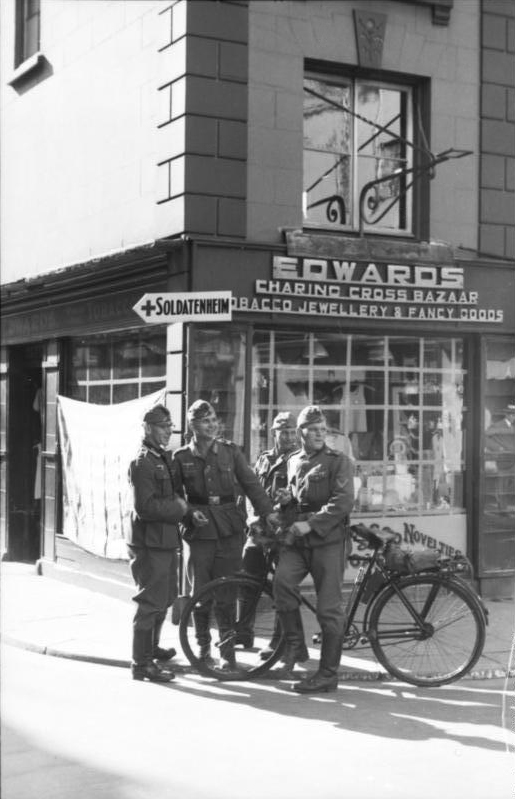 Information added by Wikimedia users.German soldiers standing in King Street, Saint Helier, at Charing Cross (now site of La Croix de la Reine monument) during Occupation of Jersey